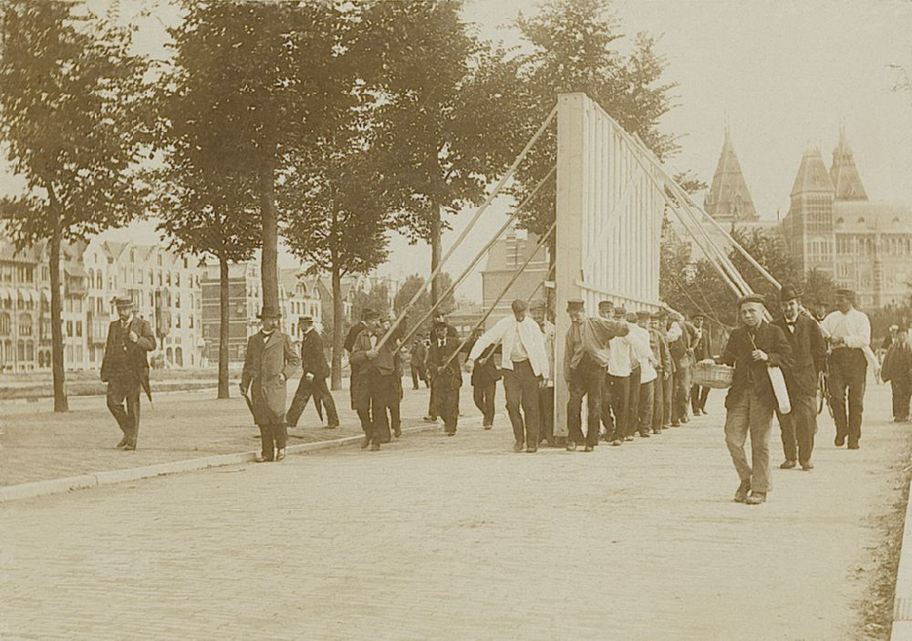 Rembrandt's monumental canvas 'The Nightwatch' is pictured in transit across the Museumplein to the Stedelijk Museum, 1898.